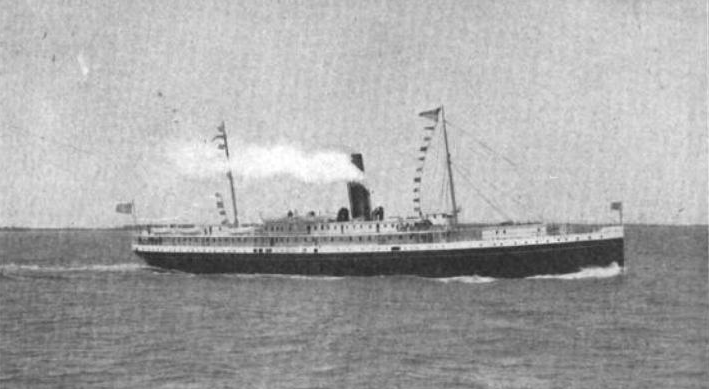 Old Dominion Line Steamship MONROE, from MARINE ENGINEERING, VIII, No. 8, August 1903 feature article.